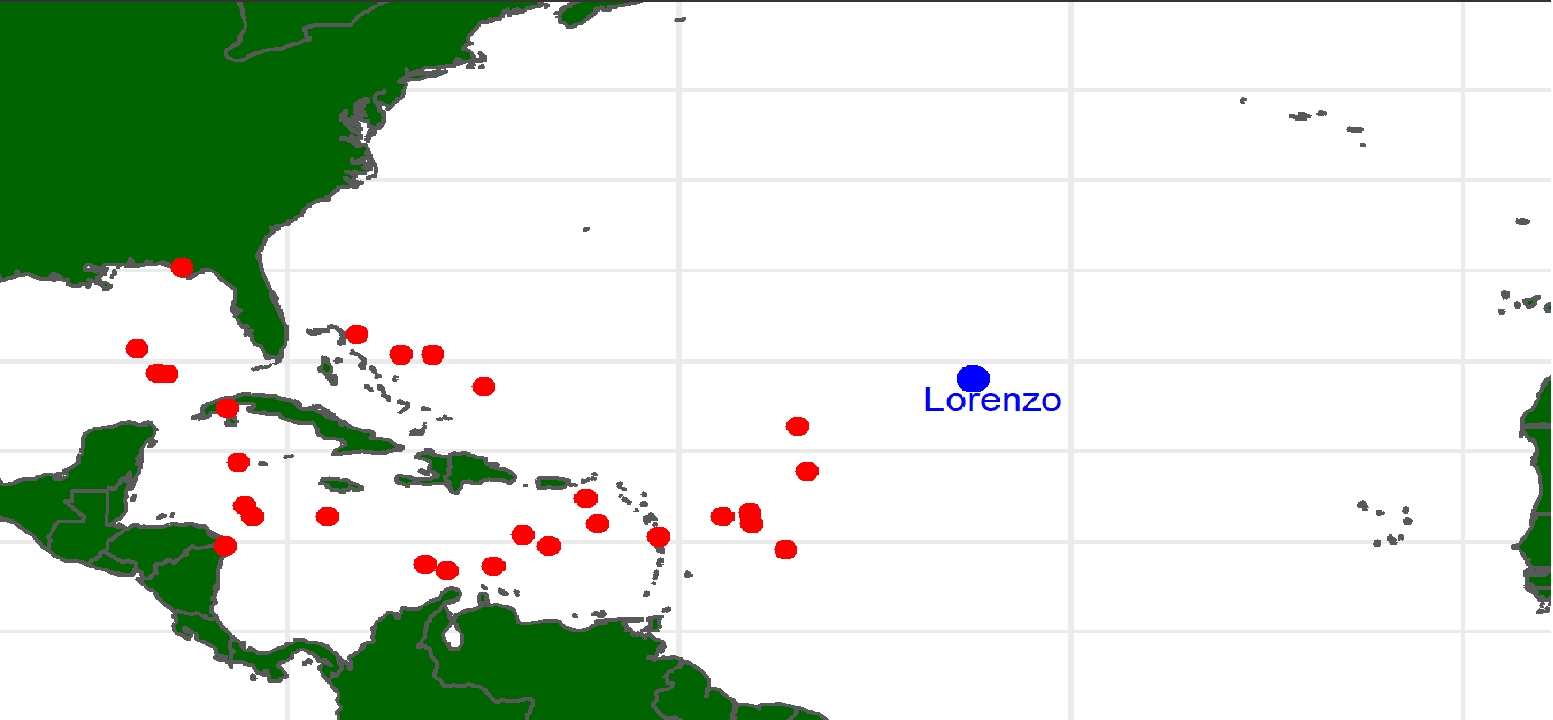 Where hurricanes became cat 5 since 1967 when satellites could see them in the sea reliably. Cat 5 is to have sustained wind speeds greater than 136 knots (157 mph; 252 km/h; 70 m/s). Hurricane Lorenzo (2019) is at the north-eastern most position.